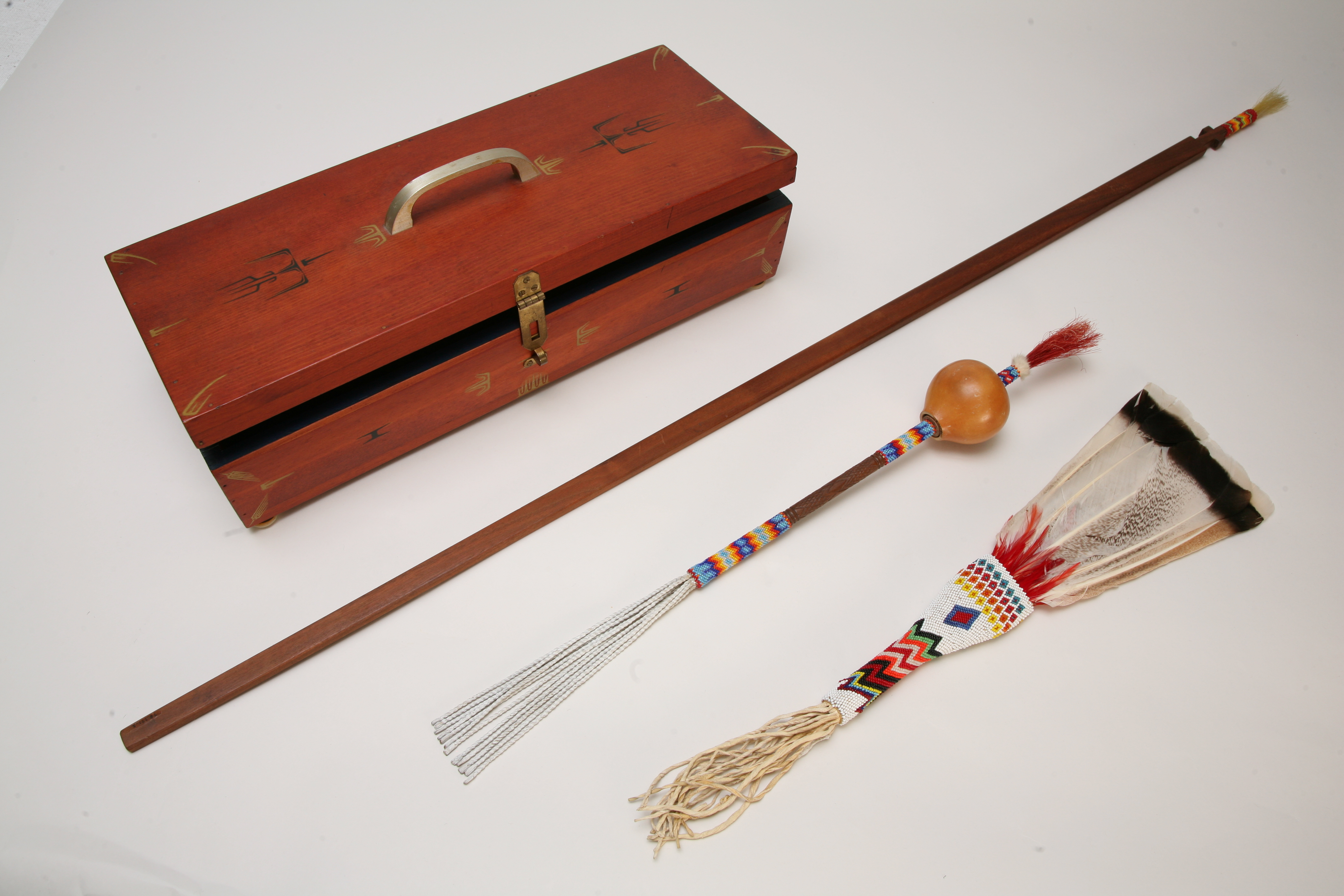 Peyote set, from the Collection of the Children's Museum of Indianapolis. This type of set is used by the Native American medicine man during the peyote ritual.